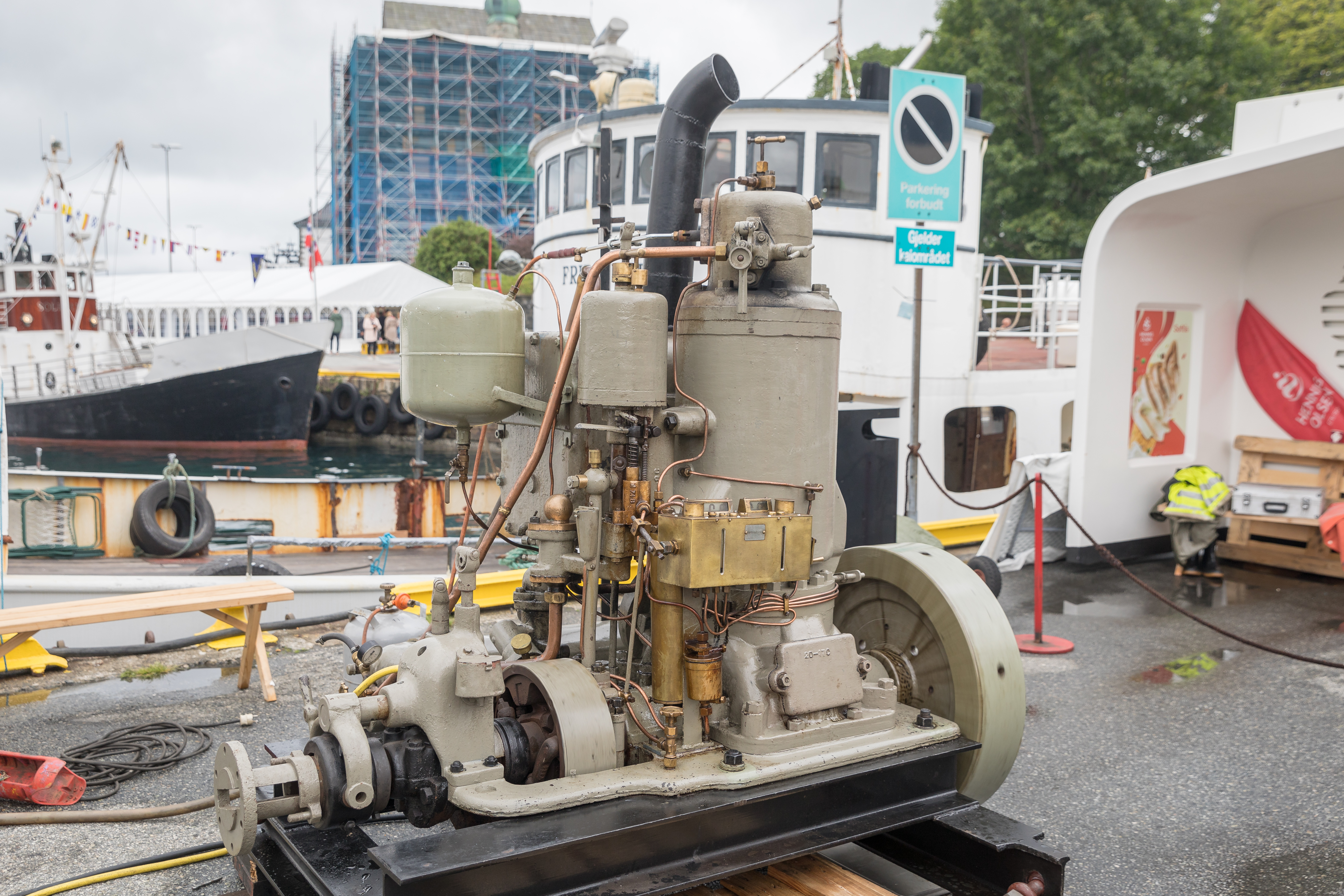 From Fjordsteam 2018 . The maritime heritage festival took place between August 2 and August 5 2018 in Bergen, Norway.